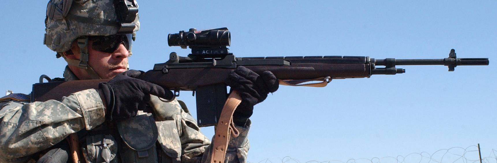 U.S. Army Sgt. 1st Class Richard Wiley demonstrates shooting an M-14 rifle to Iraqi Highway Patrol (IHP) police officers during close-quarters marksmanship training Nov. 17, 2006, at the Al Samud IHP Station in Iraq. Wiley is a platoon sergeant with Alpha Company, 3rd Battalion, 509th Infantry Regiment, Fort Richardson, Alaska.